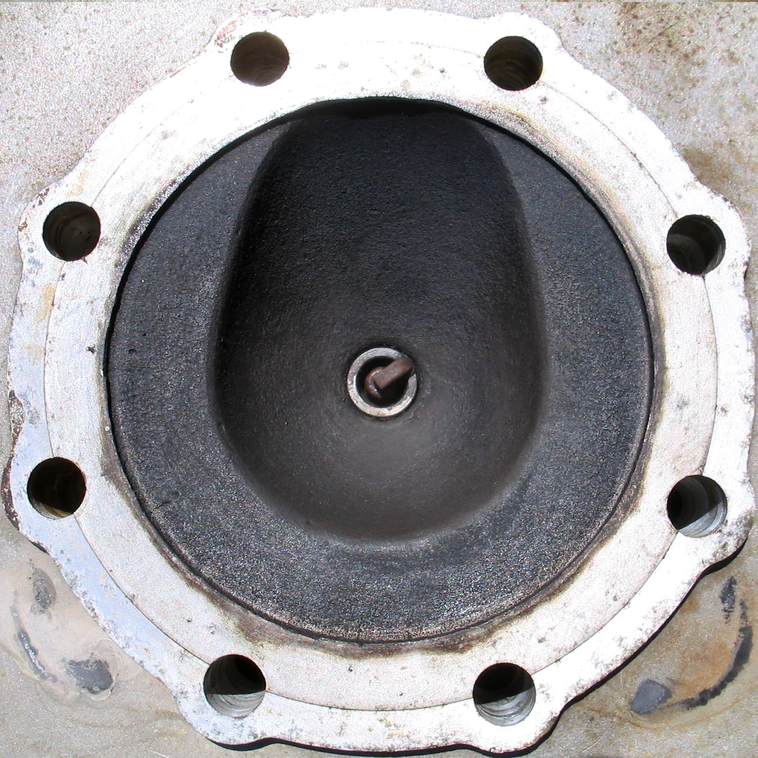 Head of Cagiva SXT 350, at the top you can see the particular conformation that welcomes and guides the fresh gas entering the cylinder through the transfer ports.